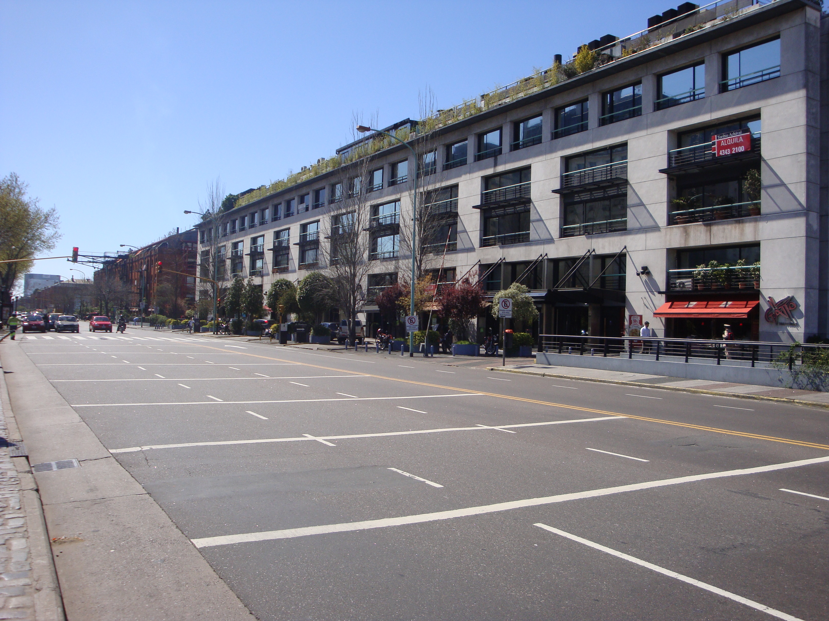 Dock 8 Building, designed by Alberto Varas in 1993 to replace a turn-of-the-century brick warehouse destroyed by fire, and completed in 1995. Puerto Madero, Buenos Aires.